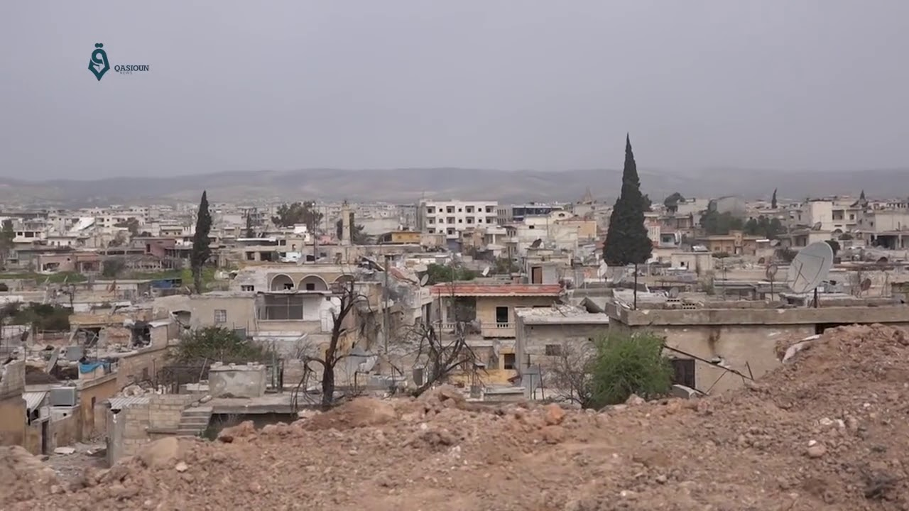 The town of Jindires in the western Afrin Region after its capture by the Turkish-backed Free Syrian Army on 9 March 2018.